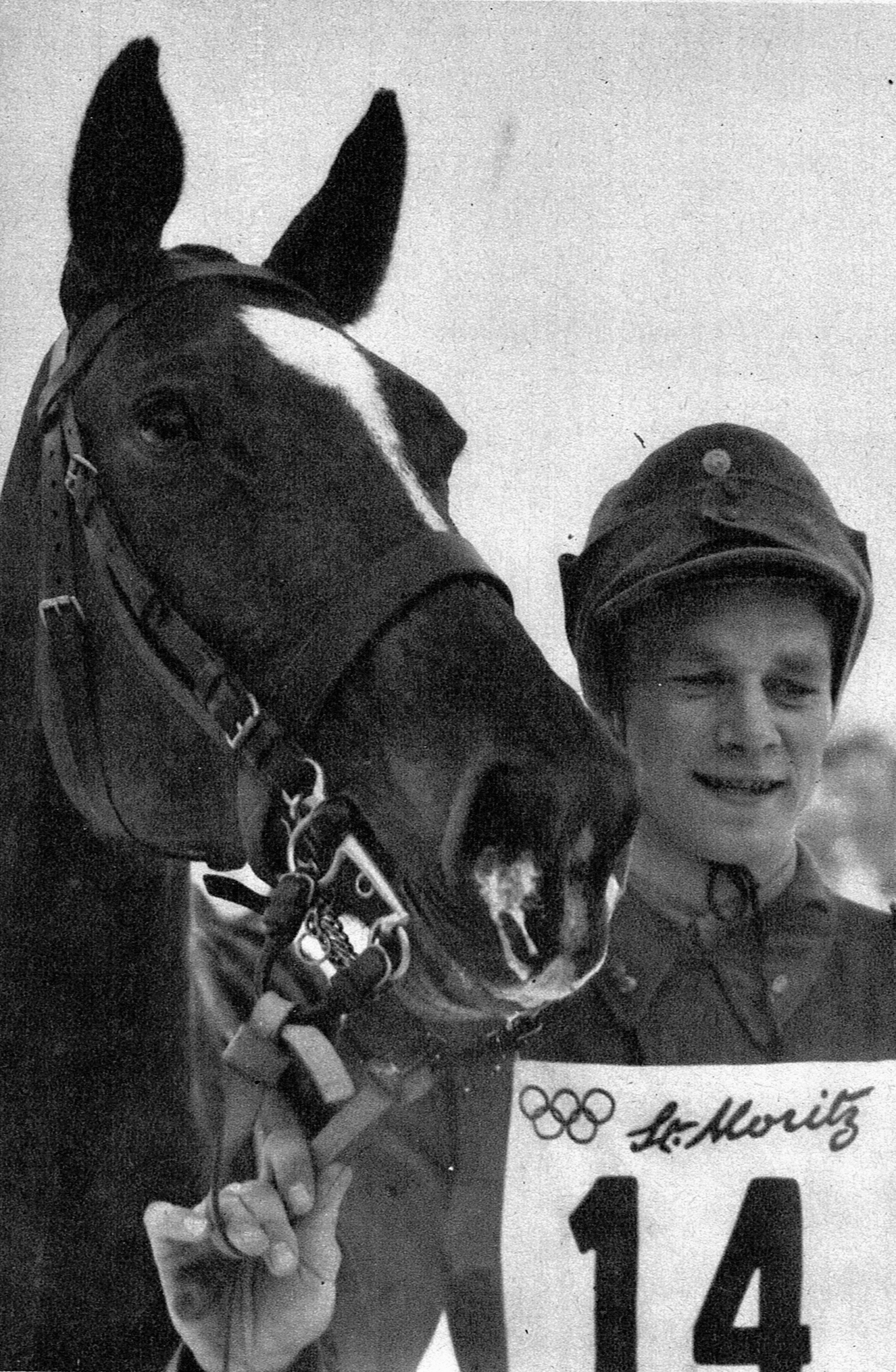 Gustaf Lindh (1926- ) after winning the horse riding of the winter pentathlon at the 1948 Winter Olympics